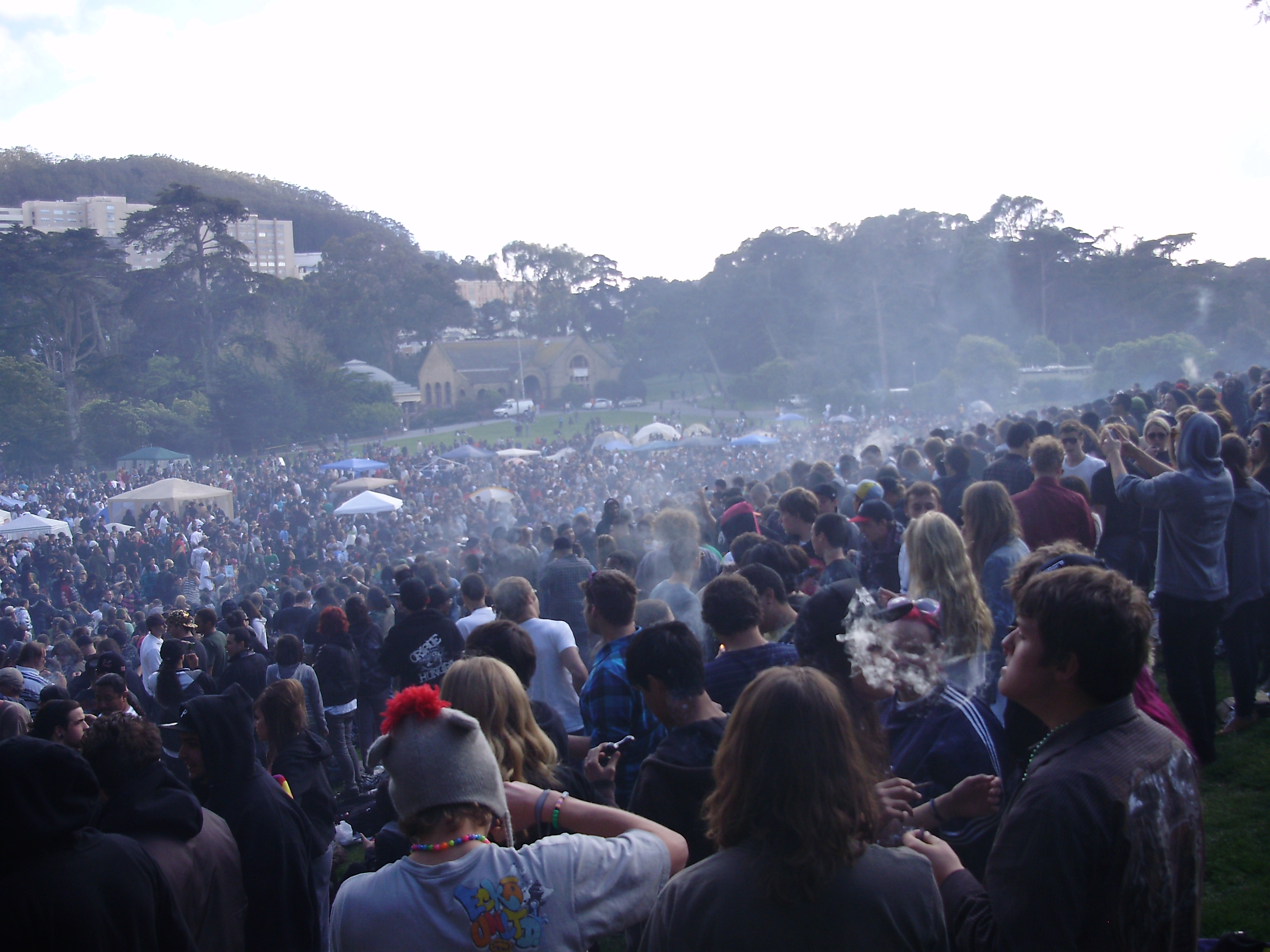 Thousands of people in Golden Gate Park, San Francisco